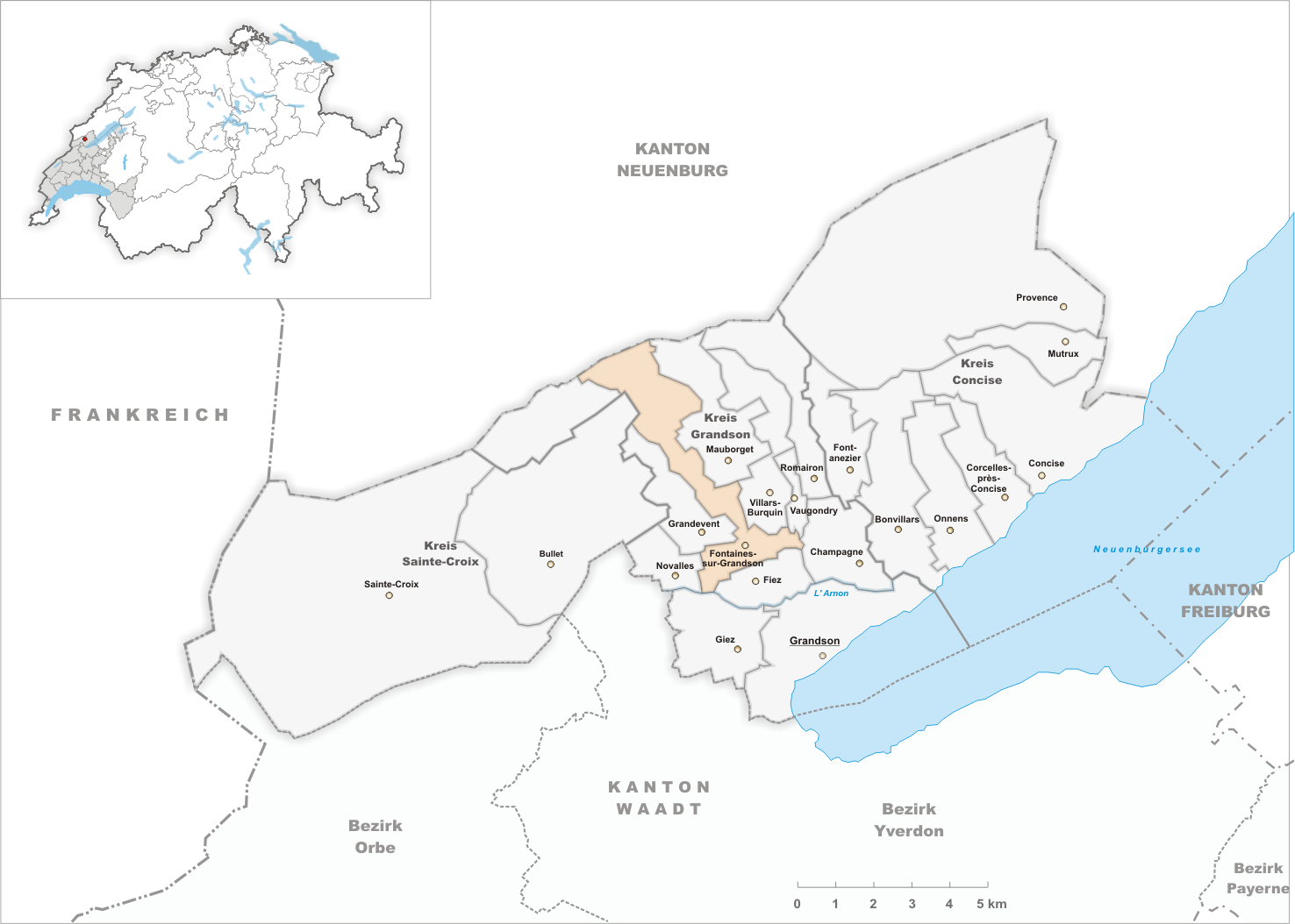 Municipality Fontaines-sur-Grandson